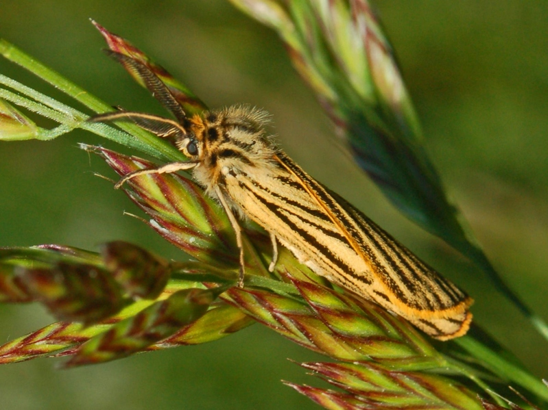 Male of Coscinia striata